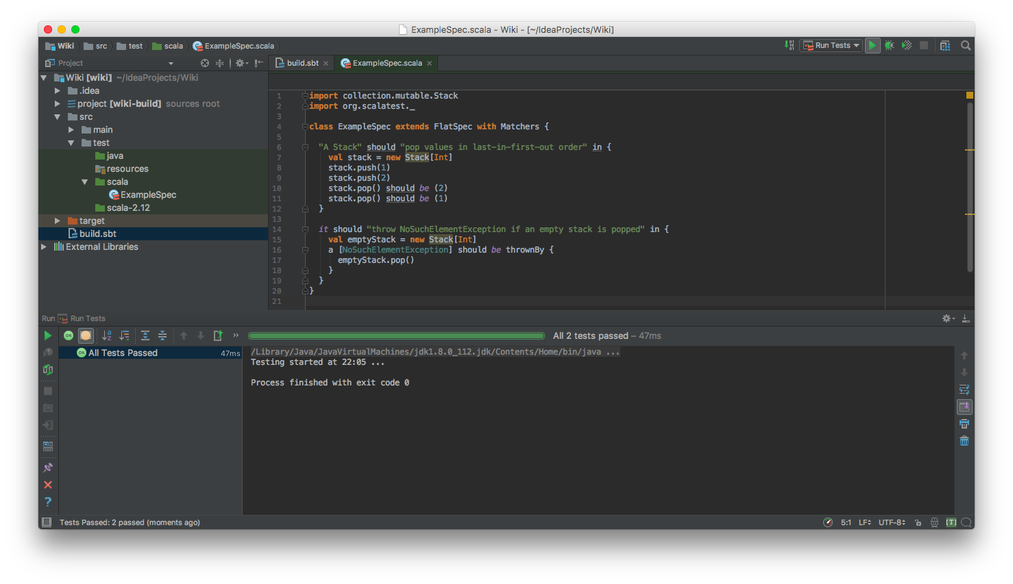 IntelliJ IDEA 2016.3 Community Edition screenshot